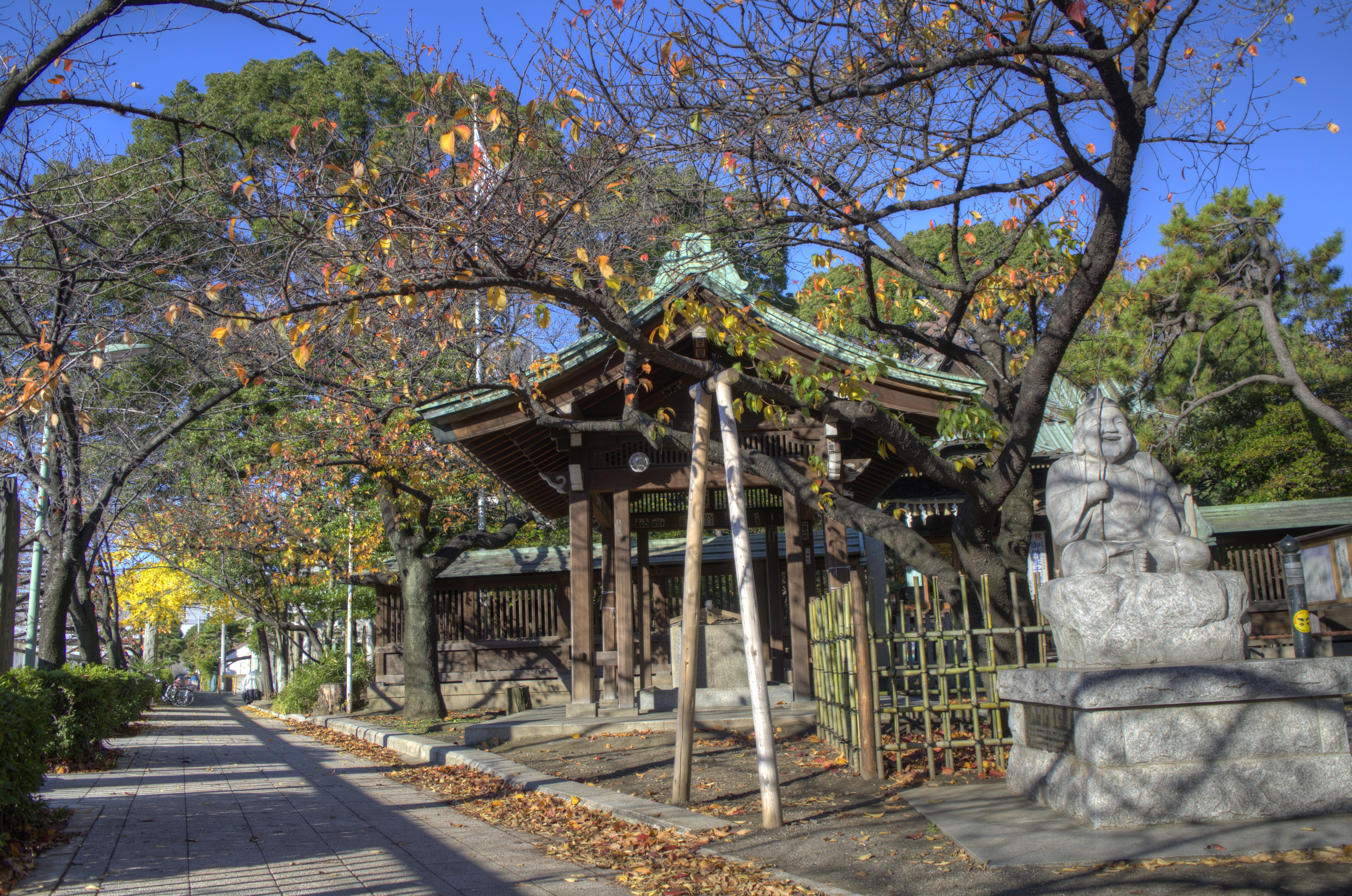 Ebara Shrine, a Shintō shrine at Kita Shinagawa, Shinagawa, Tokyo.